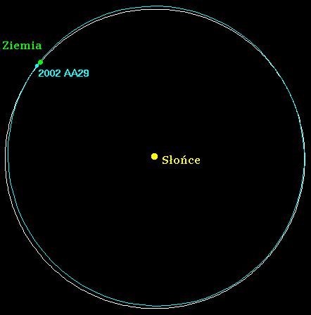 Orbits of 2002 AA29 and Earth around the Sun viewed vertical to the ecliptic. The graphic shows the relative positions of both bodies to each other in year 2001.